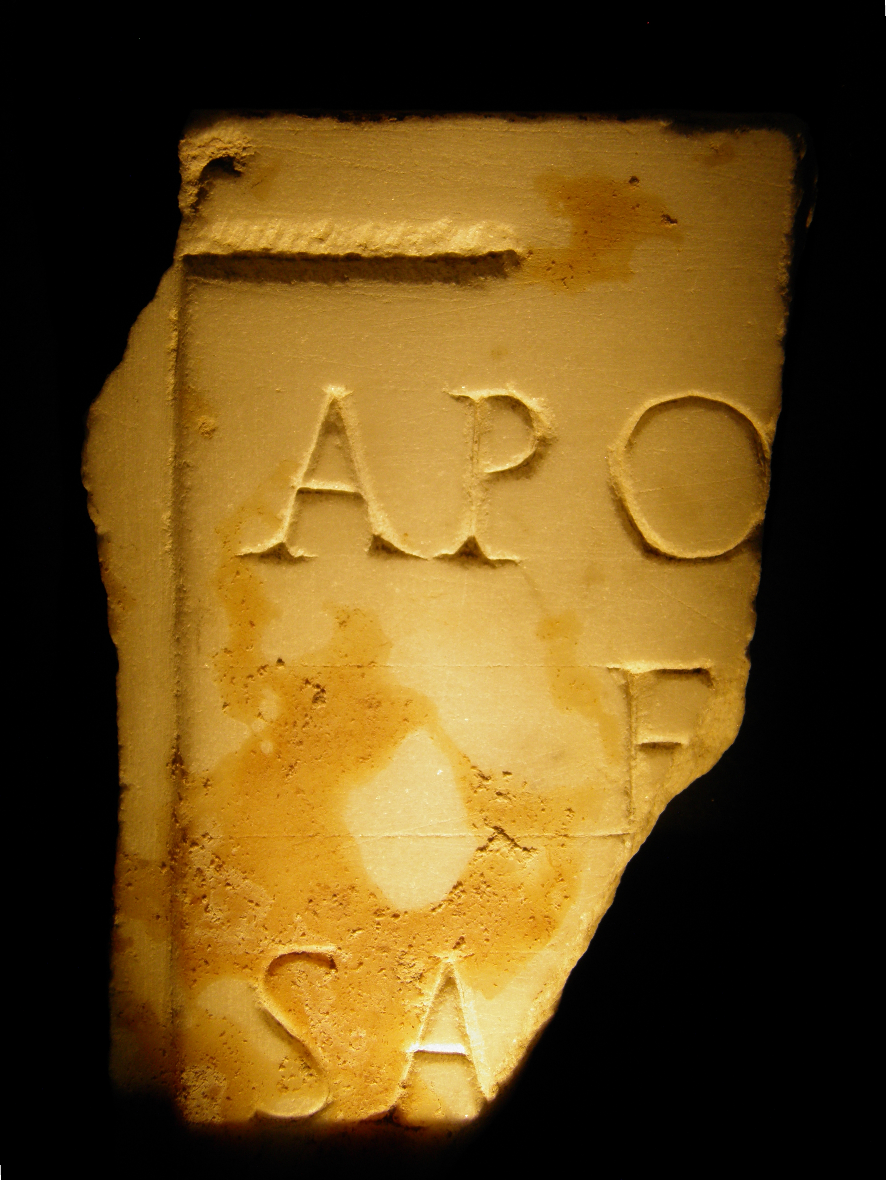 Marble inscription dedicated to the god Apollo, Grand (Andesina), France